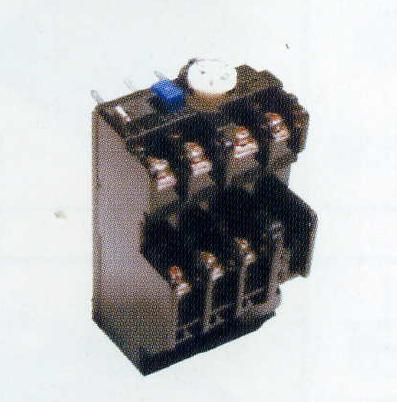 over ralay